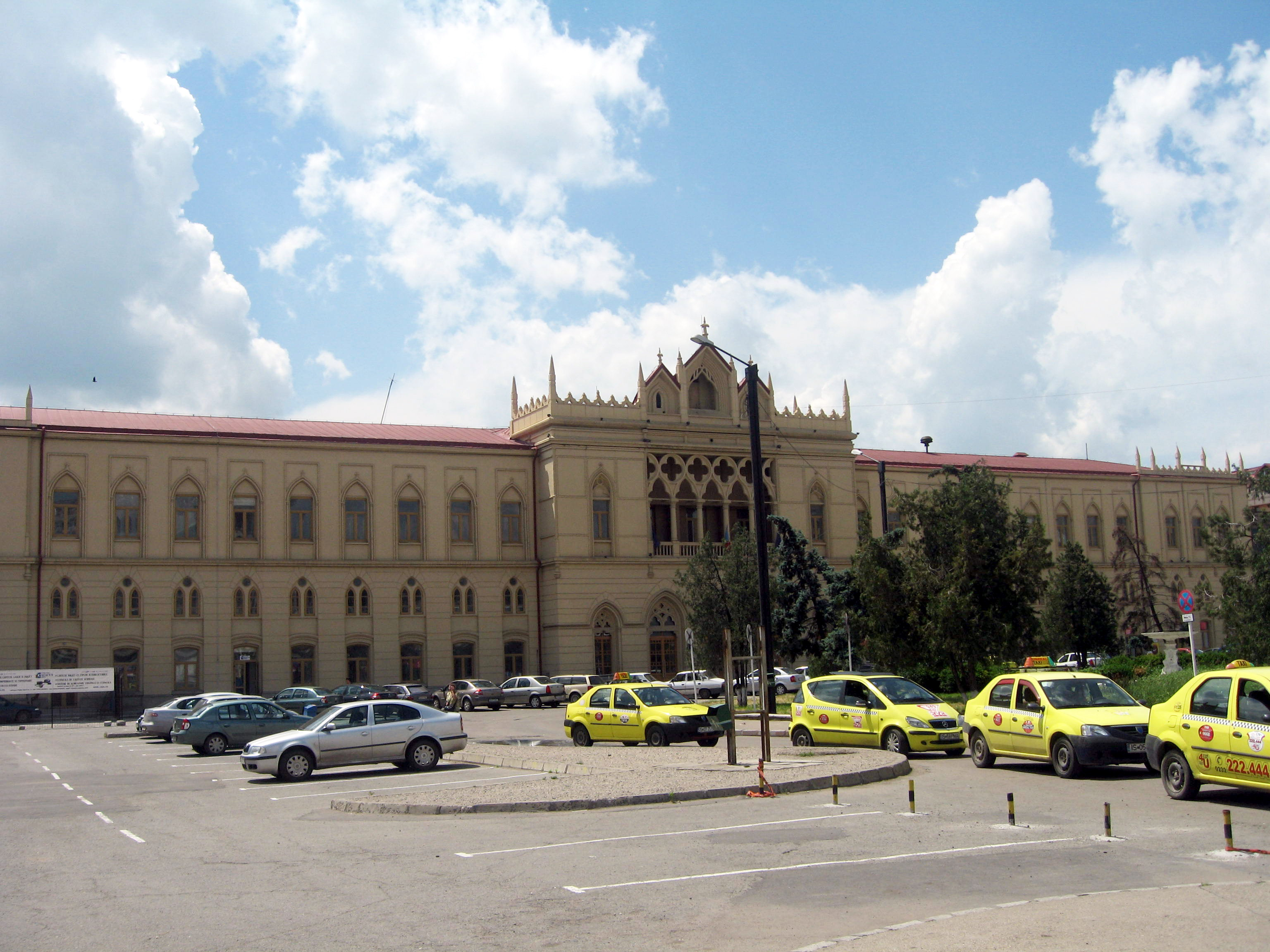 Iași Railway Stations